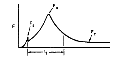 Load factor as a function of time